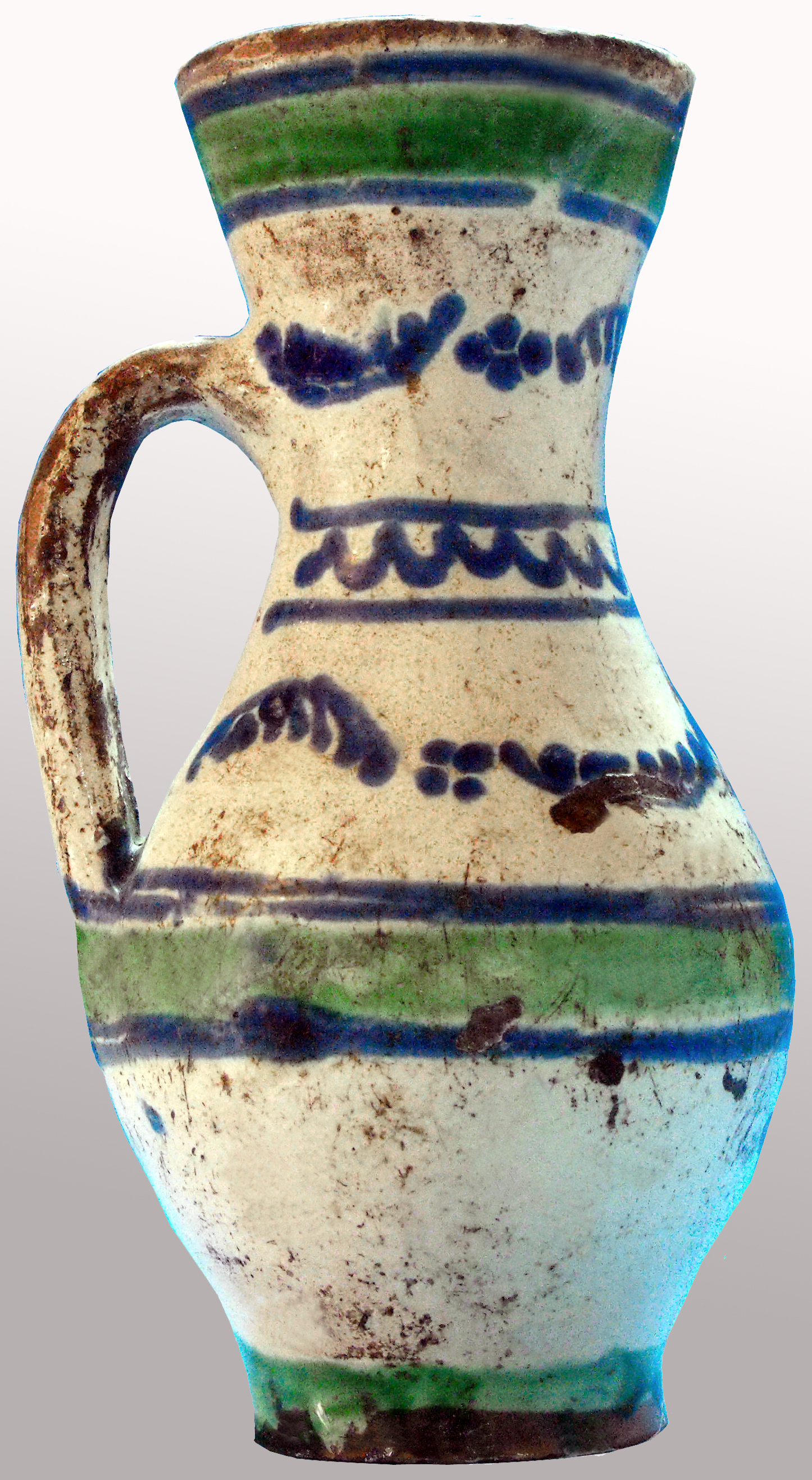 Bokaly (~slender, single eared, pear shaped, tile wine vessel) from Székelykeresztúr